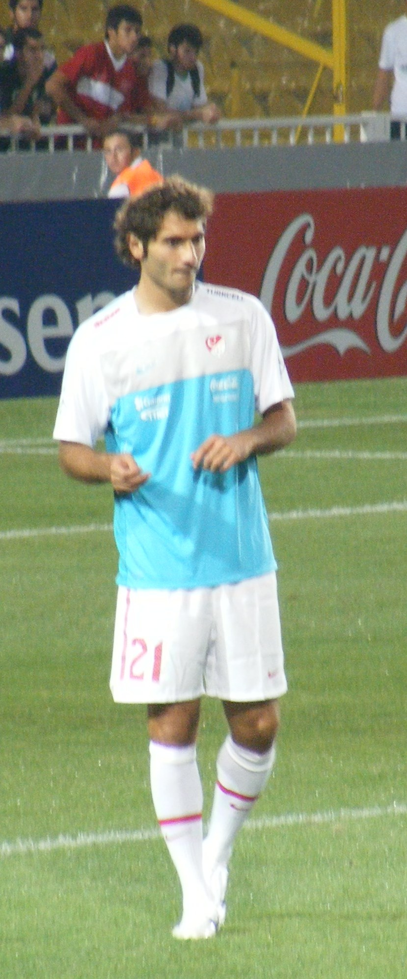 Halil Altintop in national jersey at match vs Romania in 11st Aug 2010, Wednesday at Fenerbahce Stadium, Istanbul